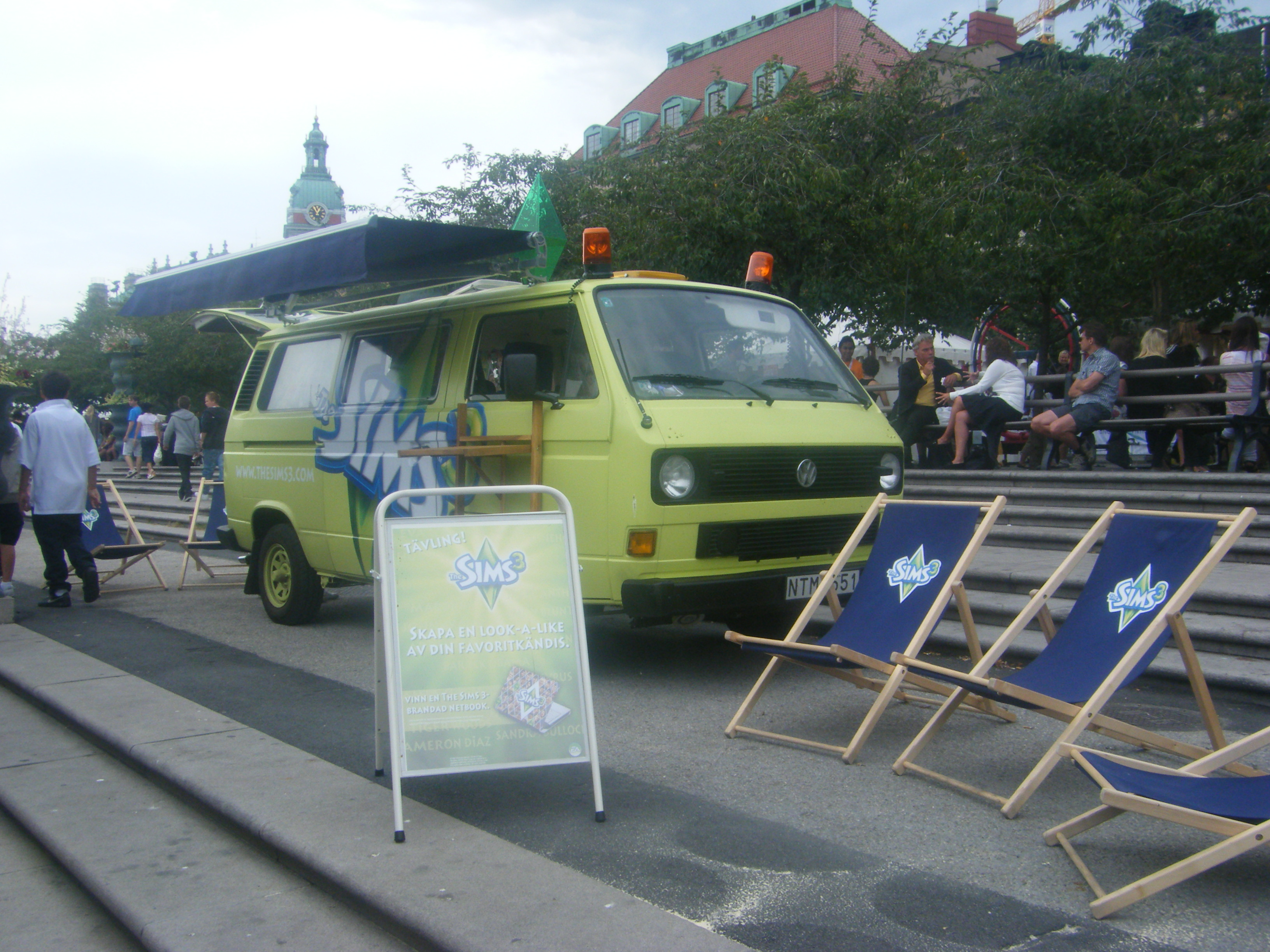 The Sims 3 in Kungsträdgården, Stockholm